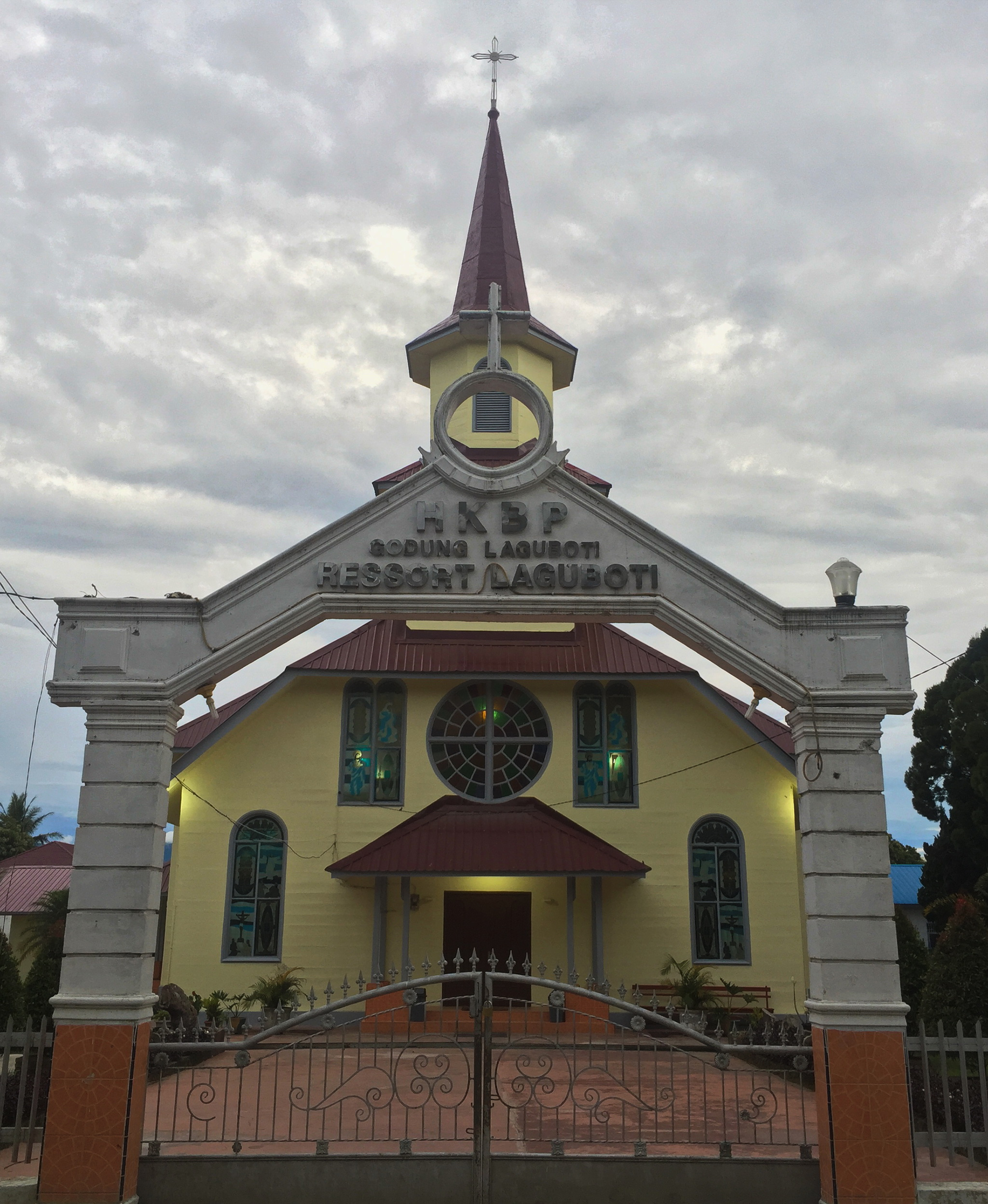 HKBP Godung Laguboti, Church in Laguboti, Toba Samosir